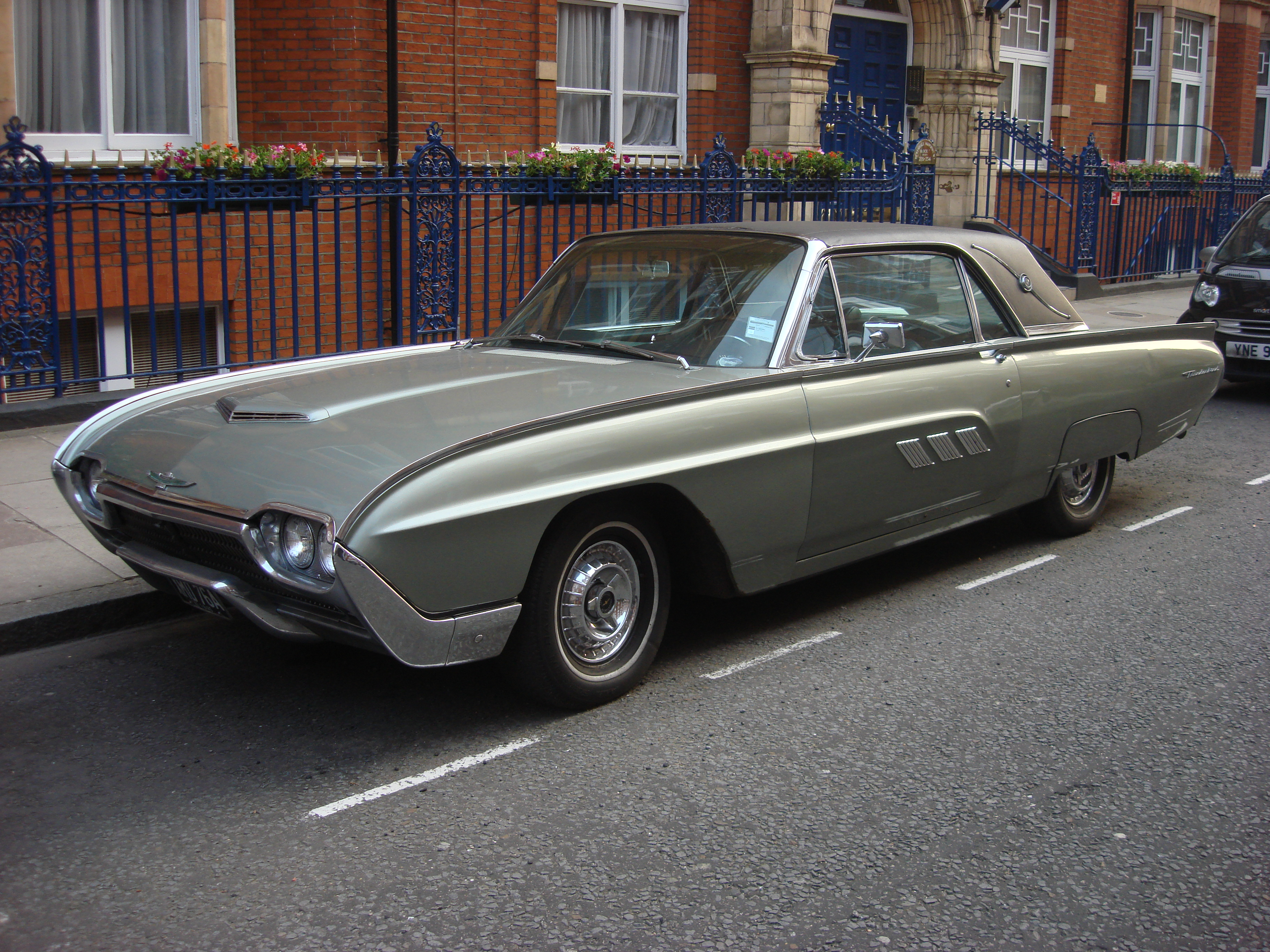 Ford Thunderbird in Marylebone London